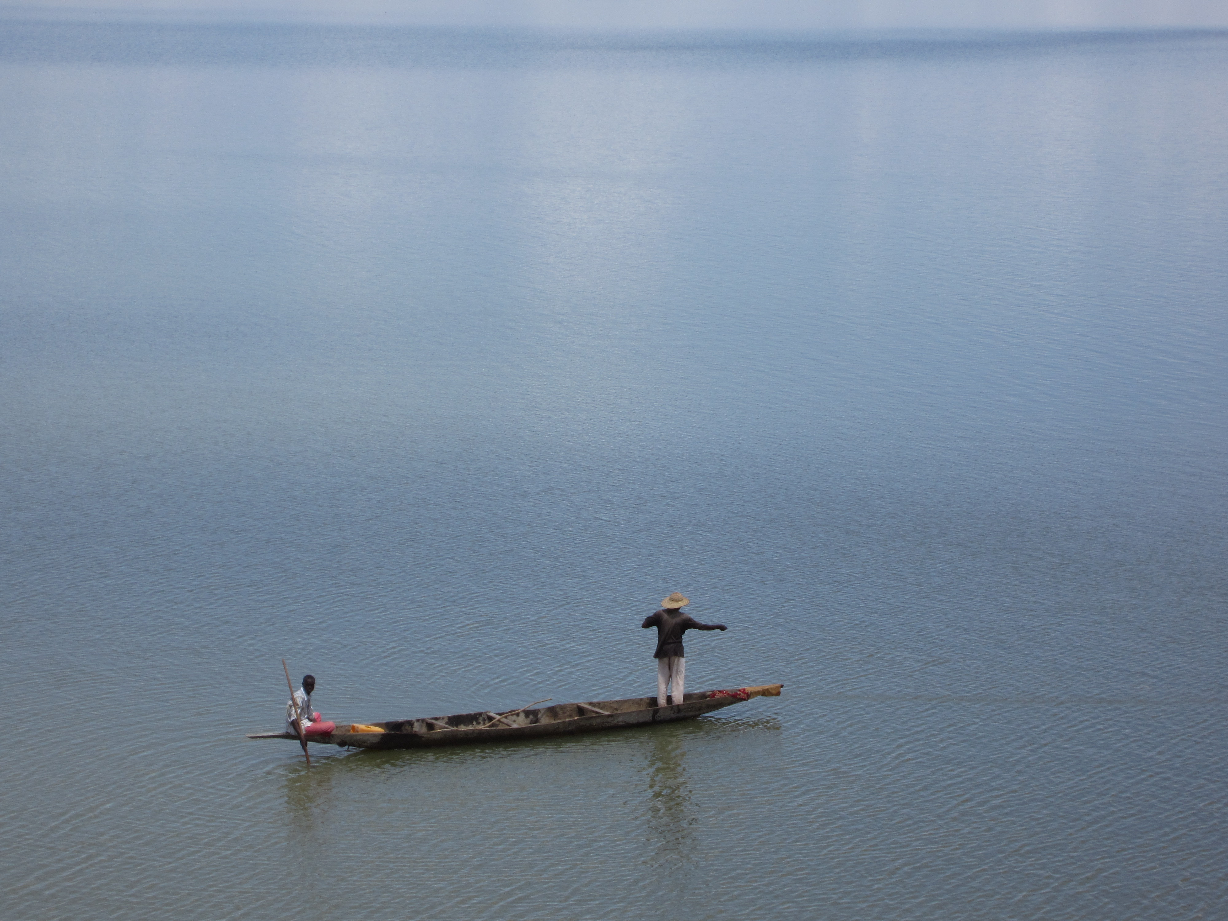 This is an image with the theme "Africa on the Move or Transport" from: Mali